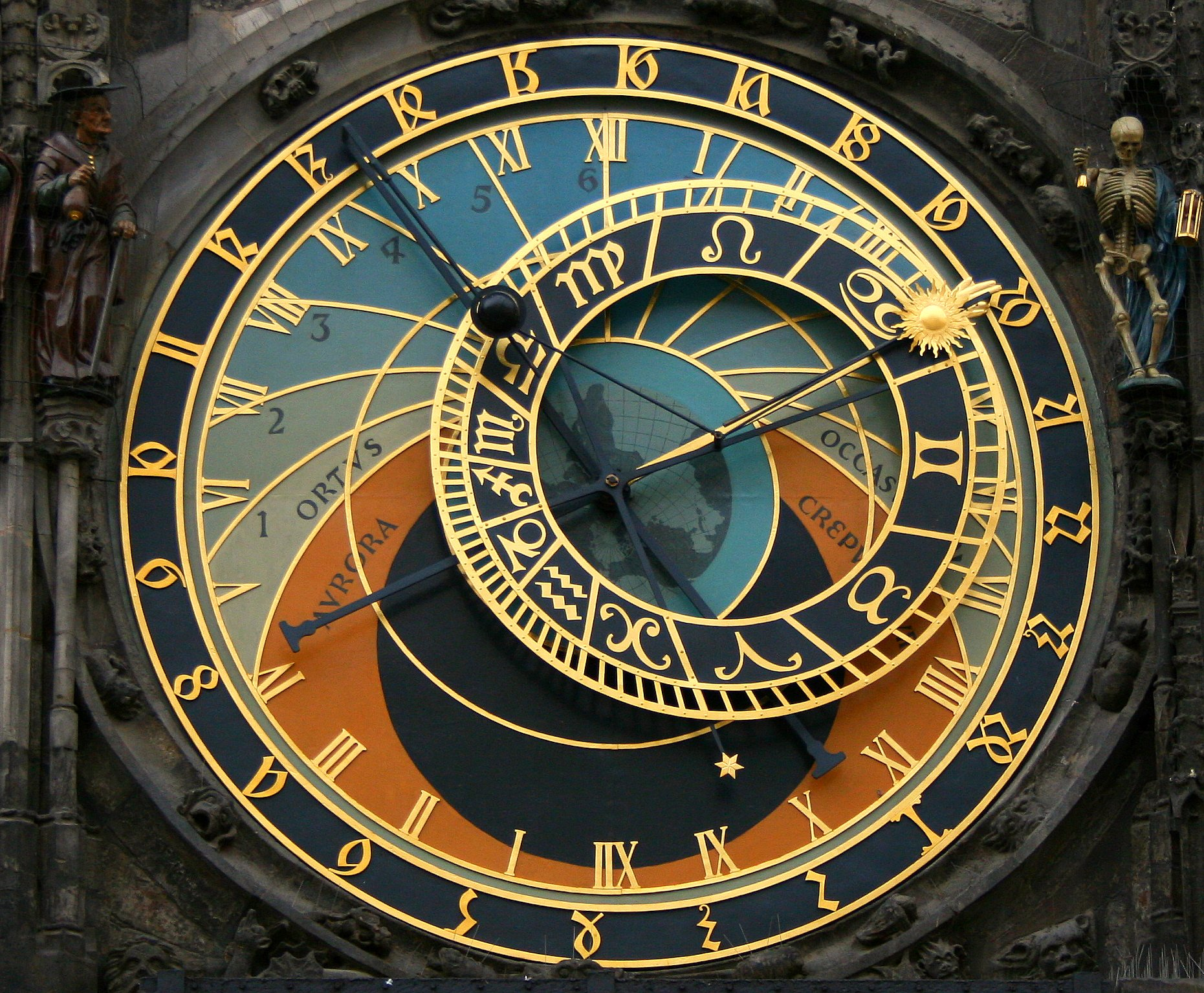 The Prague Astronomical Clock or Prague Orloj is a medieval astronomical clock located in Prague, The Orloj is mounted on the southern wall of Old Town City Hall in the Old Town Square. The oldest part of the Orloj, the mechanical clock and astronomical dial, dates back to 1410 when it was made by clockmaker Mikuláš of Kadaň and Jan Šindel, the latter a professor of mathematics and astronomy at Charles University. (